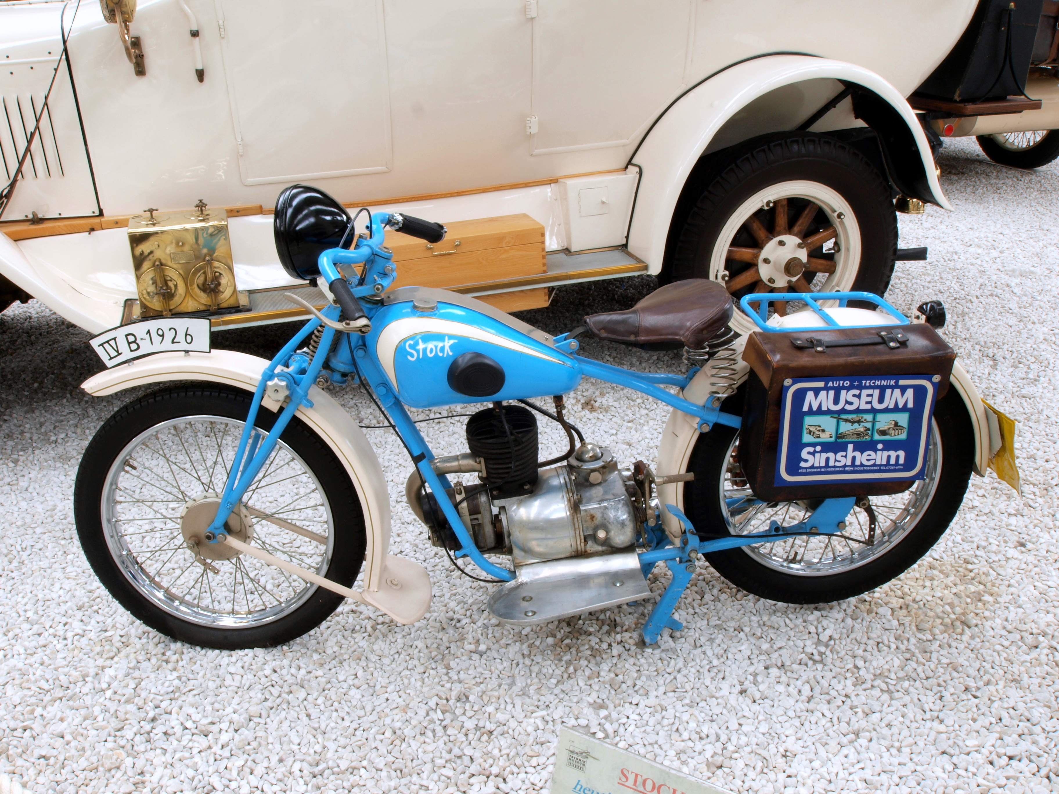 Photographed at the Technik Museum Speyer, Germany.